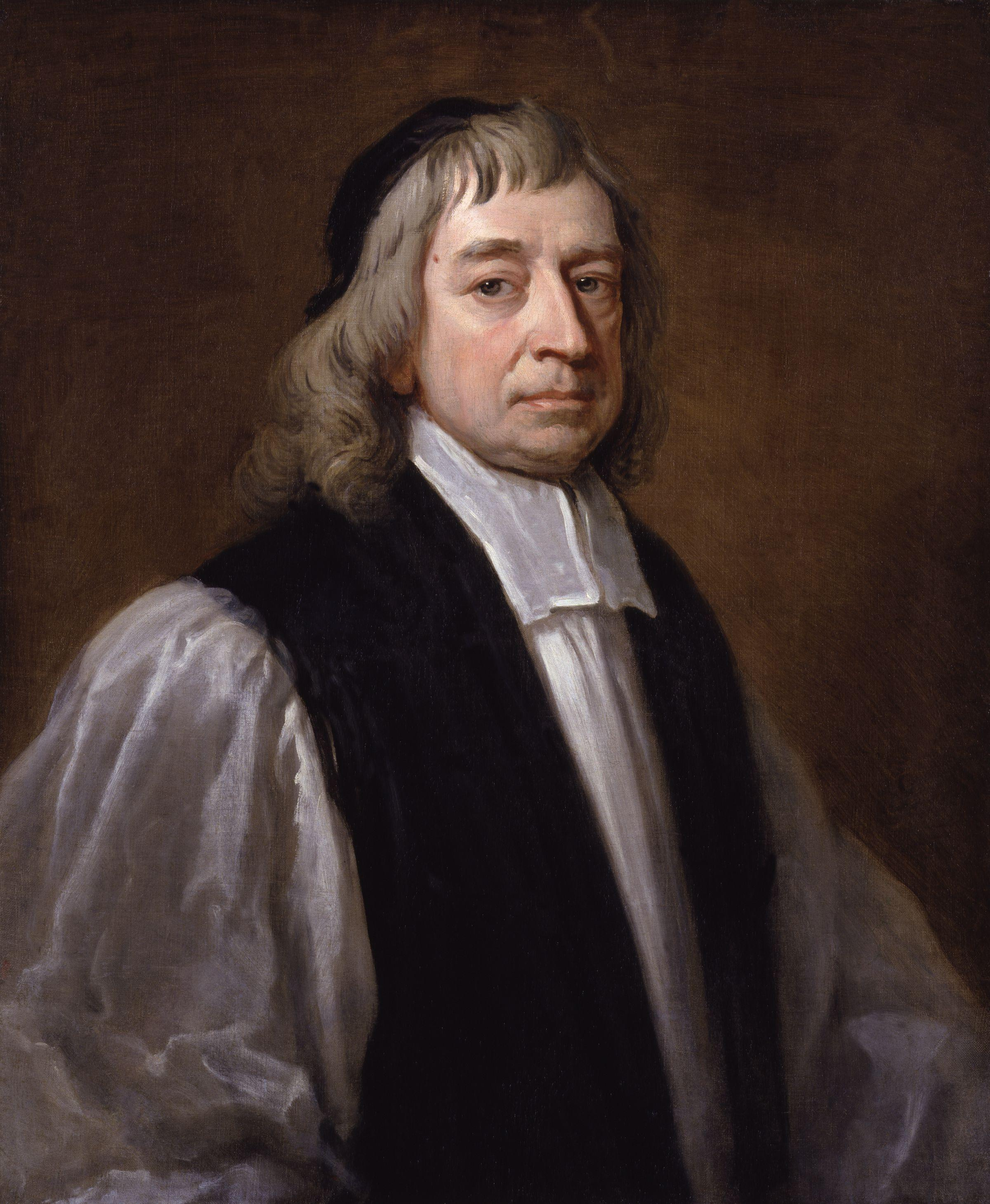 Henry Compton, by Sir Godfrey Kneller, Bt (died 1723). All images in this batch have been confirmed as author died before 1939 according to the official death date listed by the NPG.